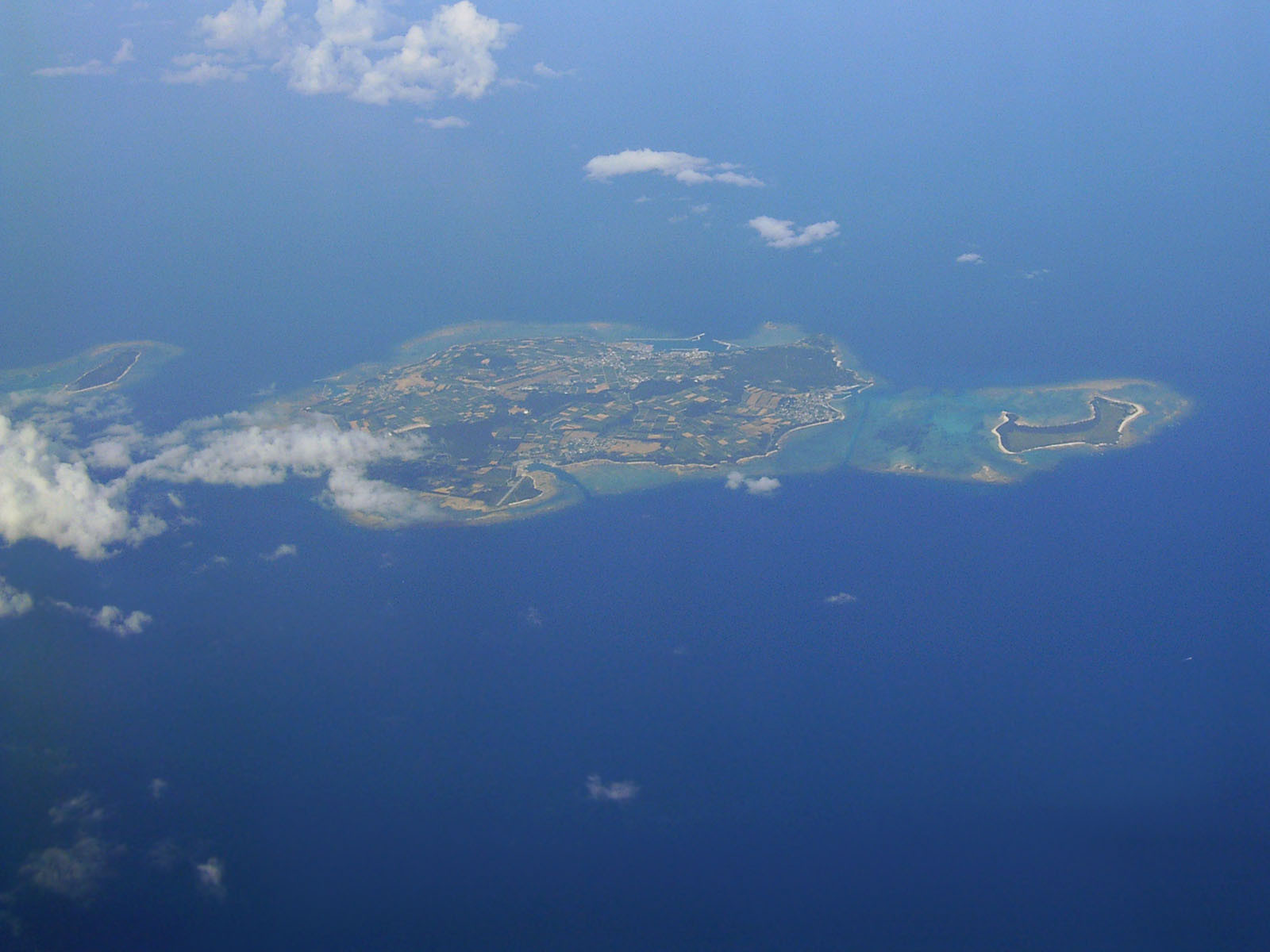 Izena Island and others, Izena Village, Shimajiri District, Okinawa, Japan.